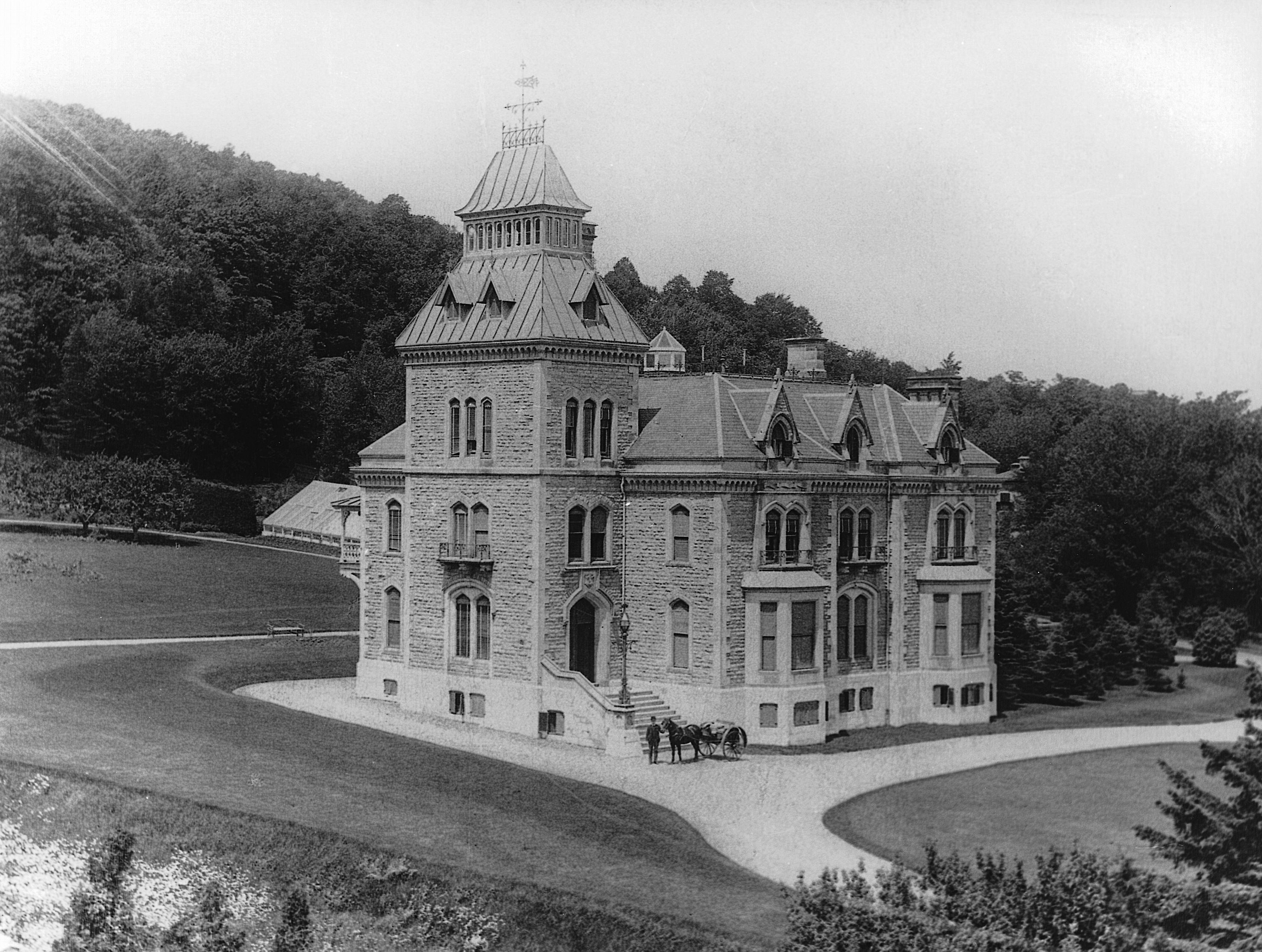 Photograph, John Redpath's house "Terrace Bank", Sherbrooke Street, Montreal, QC, about 1880, Anonymous, Silver salts on paper mounted on card - Gelatin silver process - 12 x 17 cm